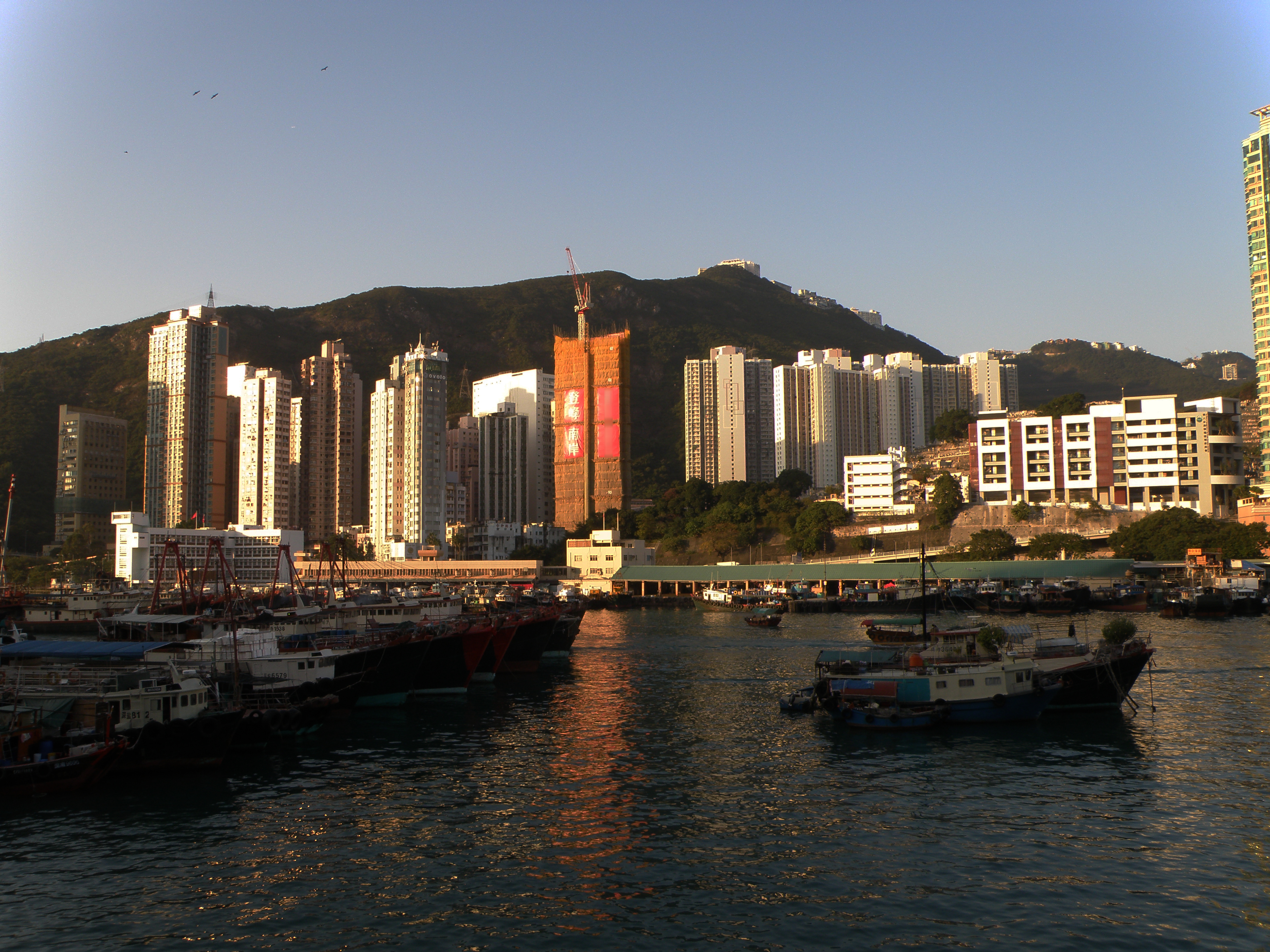 Tin Wan in Southern District, Hong Kong.